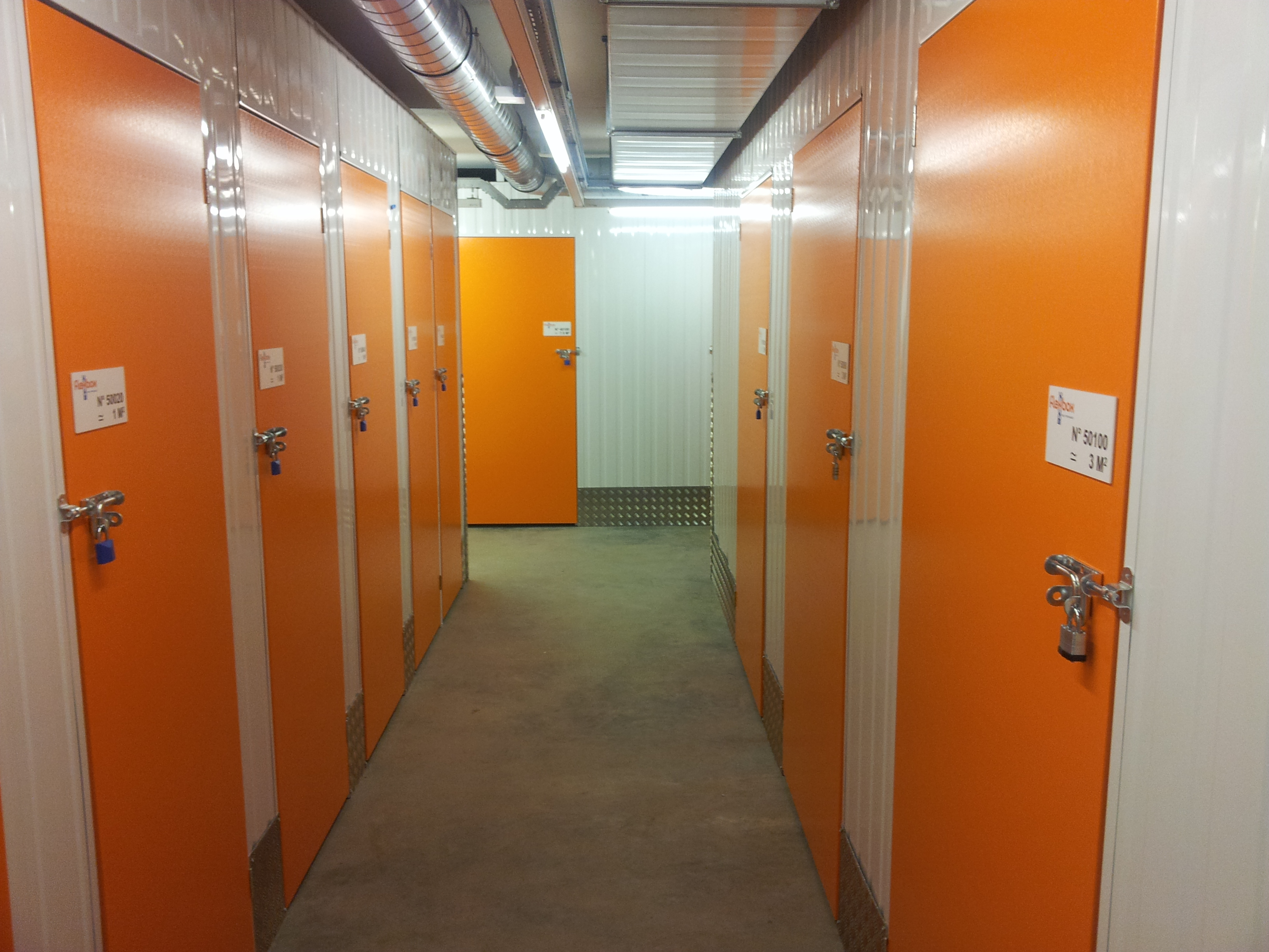 There are two types of doors in self storage, here doors are hinged to one side, instead of being roll up doors (tambour door).